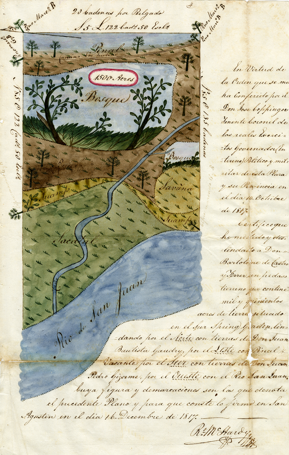 One page from Spanish land grant papers documenting the claims of John B. Gaudry, a Spanish nobleman who established a plantation near present-day DeLeon Springs, Florida after he received a land grant in 1807. This is an 1817 document depicting a parcel of land adjacent to the St. Johns River.